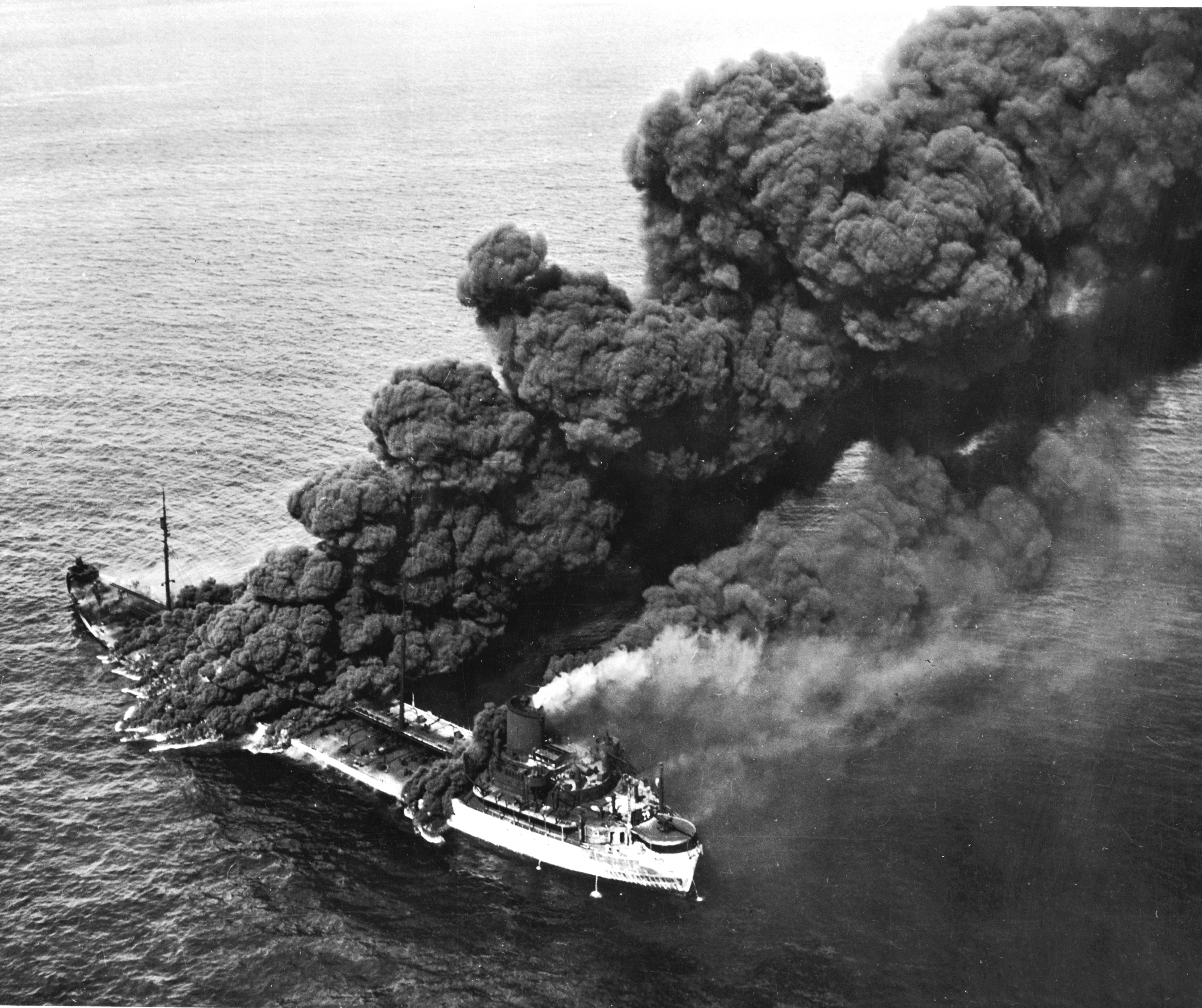 LC-USW33-034628-ZC: U.S. tanker, SS Pennsylvania Sun, torpedoed by German submarine, U 571, in July 1942. Despite a raging fire, which sent columns of black oily smoke billowing into the sky, crew members were able to bring the flames under control and the ship was towed to port by a U.S. Navy vessel. (7/17/2015).